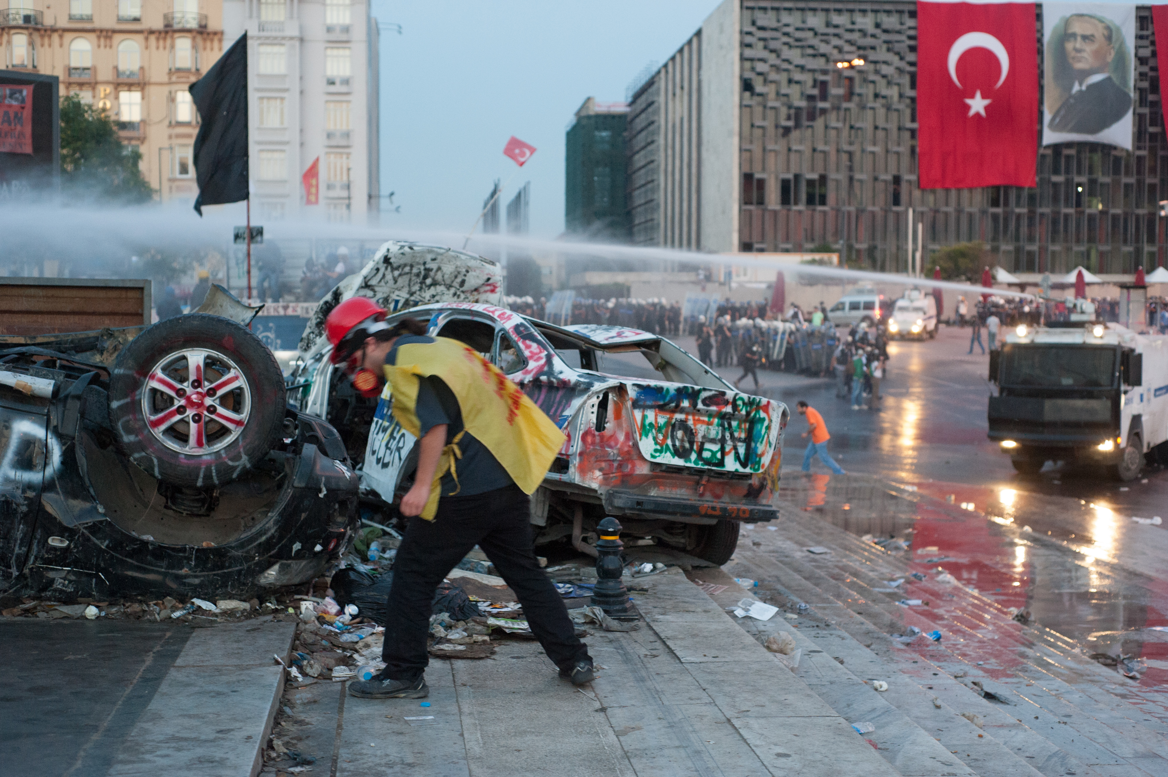 Taksim square cleaning. Events of June 16, 2013.